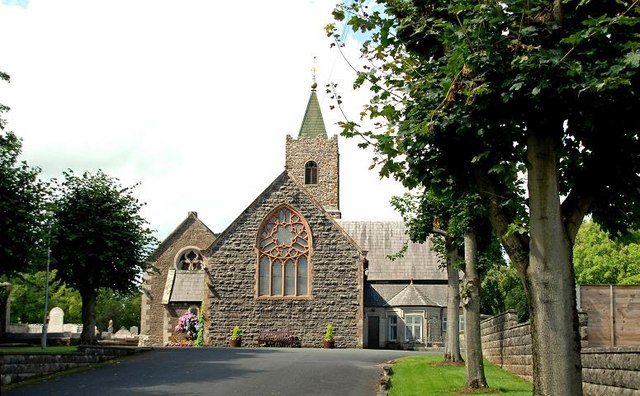 St Patrick's Church of Ireland parish church, Waringstown, County Down, Northern Ireland. The parish church was originally in nearby Donaghcloney, but was moved to Waringstown in 1641. In 1681, under an Act of Parliament, William Waring had a new church built in Waringstown. It was designed by James Robb, chief mason of the King's Works in Ireland, who also designed Waringstown House 1432551. A tower and spire were added in 1748 and a north transept in 1832. The church includes the bell from the original church in Donaghcloney.